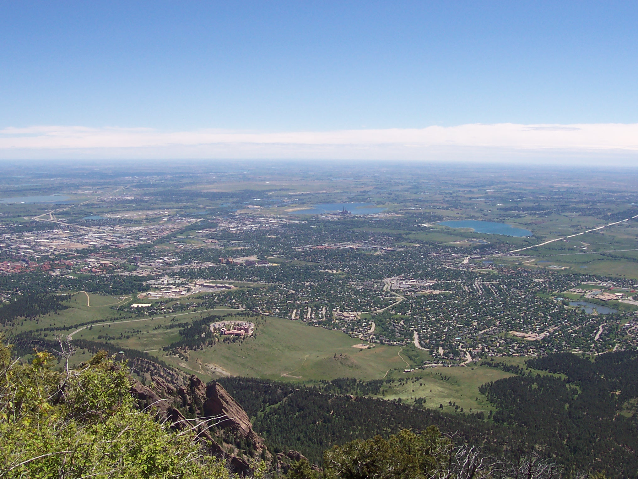 View of Boulder from Bear Peak. University of Colorado far left.